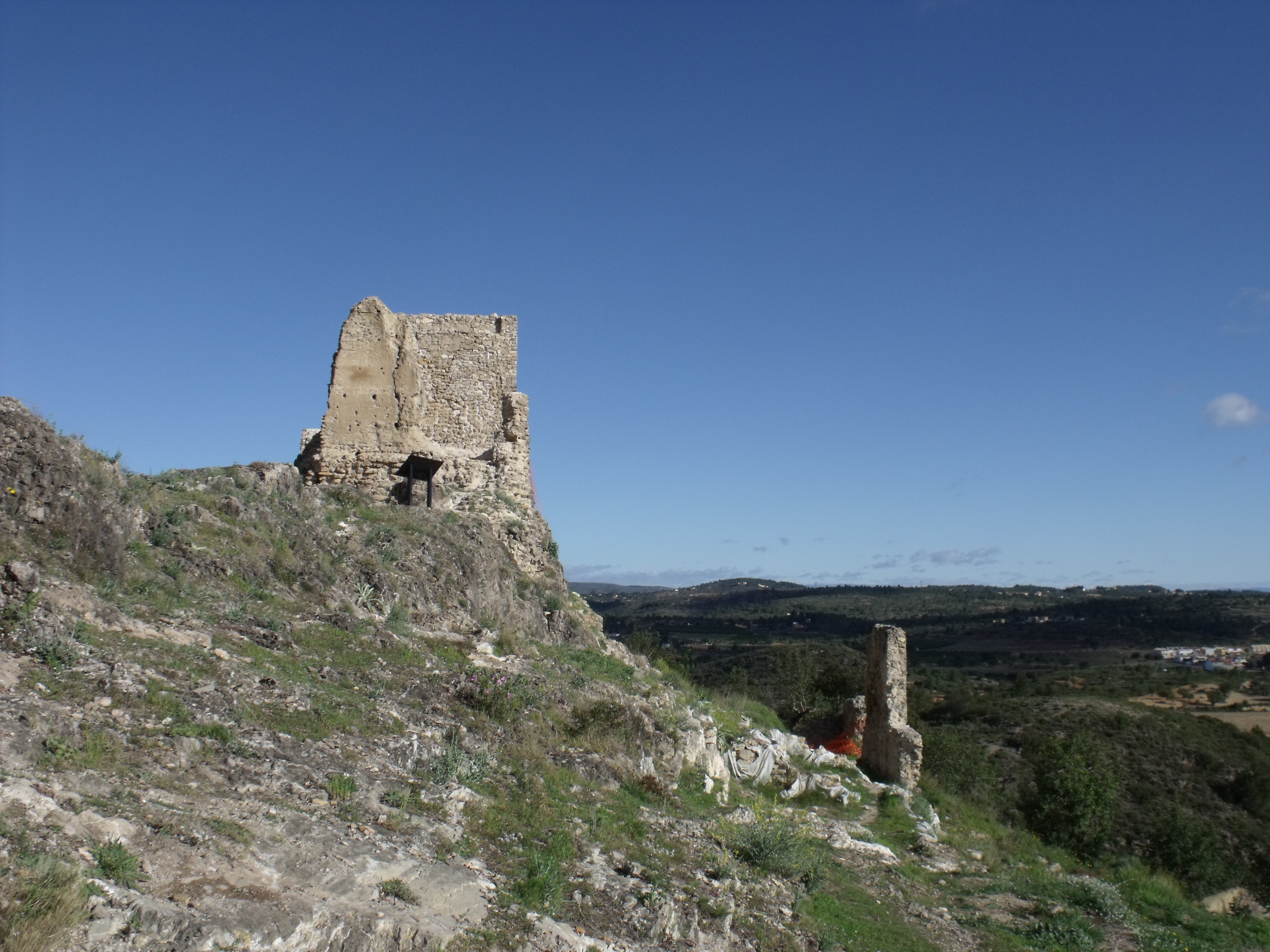 Castle of Turís, Spain.